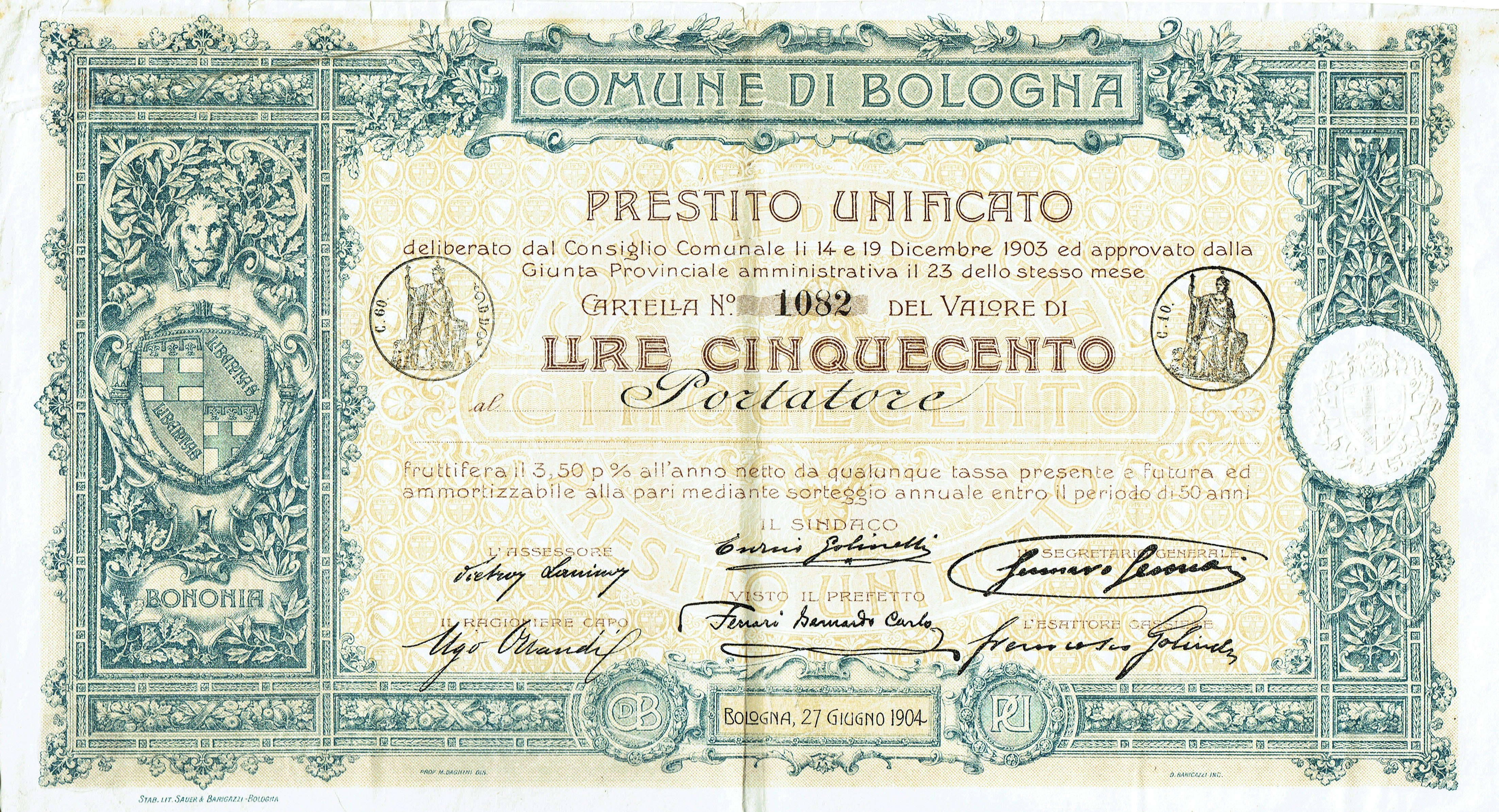 Bond of Bologna, issued 27. June 1904